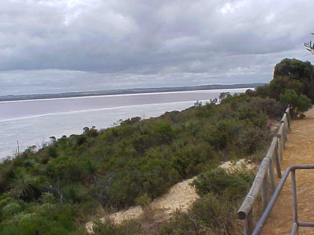 Photo of Eastern end of Pink Lake near Esperance